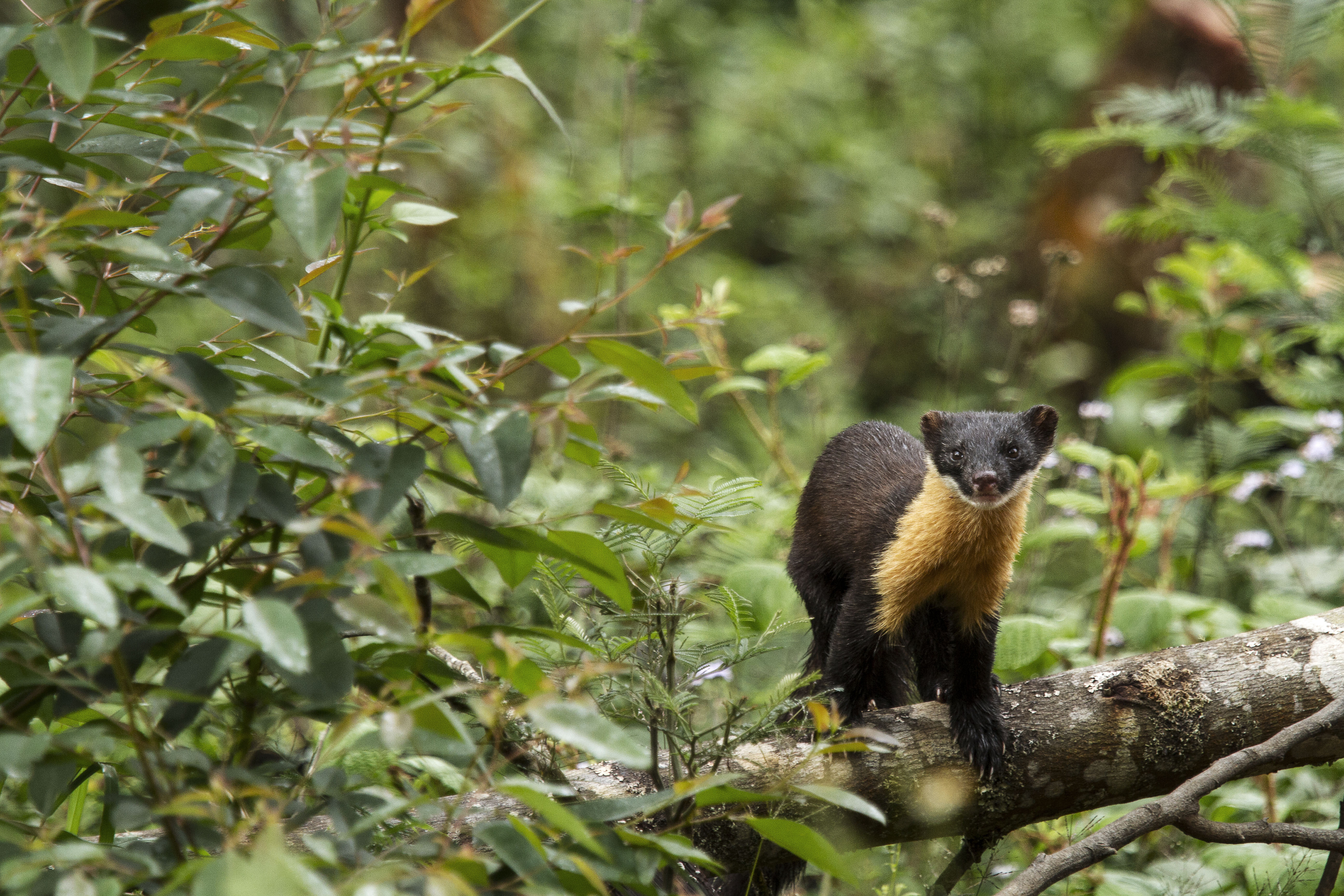 The Nilgiri marten (Martes gwatkinsii) is the only species of marten found in southern India. It occurs in the hills of the Nilgiris and parts of the Western Ghats.